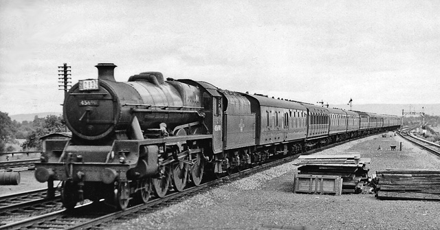 'Jubilee' Class 4-6-0 'Leander' at Churchdown. The celebrated preserved 'Jubilee' during its working life. The view is ENE at Churchdown station on the very busy main line between Cheltenham and Gloucester, which was shared between the ex-Midland and the ex-Great Western Birmingham - Bristol trunk lines, also ex-GW Cheltenham - Swindon - London and to South Wales. The route was quadrupled in August 1942 to cope with wartime traffic, but reverted to double track in 1967; Churchdown Station was closed on 2/11/64. The train is the 07.30 Newcastle - Paignton, one of a constant stream passing through that day - a Summer Saturday